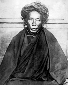 Tertön Sogyal Lerab Lingpa (1856–1926) was one of Tibet’s great mystics of the late nineteenth and early twentieth centuries, teacher of the XIII Dalai Lama, and protector of the Tibetan nation. This is the only known photo of him taken in 1913 near Rebkong in northeast Tibet.